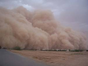 This wind describes the harsh, dry, hot Climate in Hafar Al-Batin. This type of wind is rare but it happened.